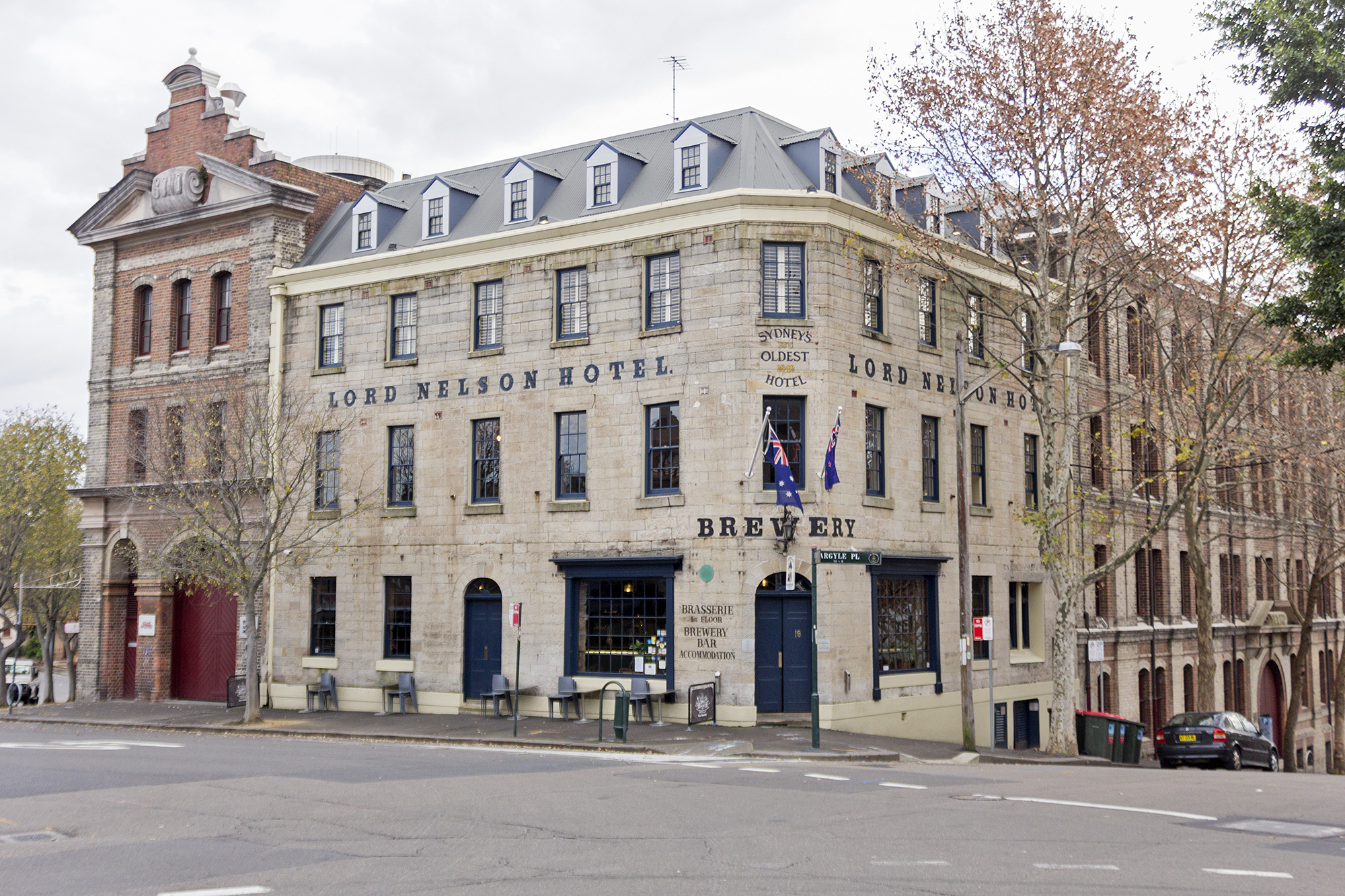 Lord Nelson Hotel and Former Oswald Bond and Free Store on the corner of Kent Street and Argyle Place, Millers Point, New South Wales.